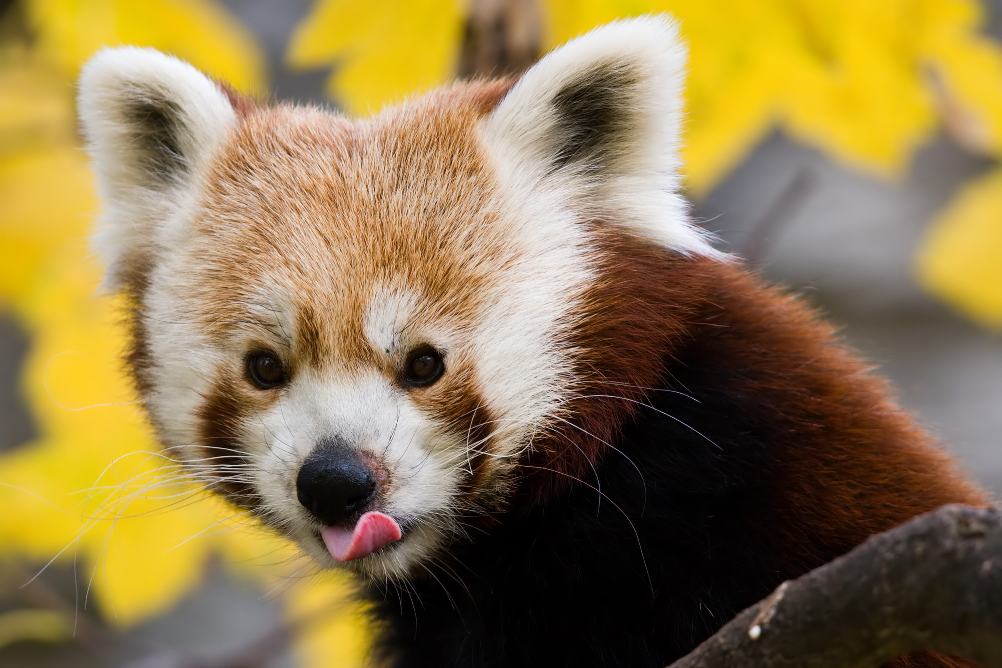 Red Panda, picture taken in Zoo Schönbrunn, Vienna, Austria